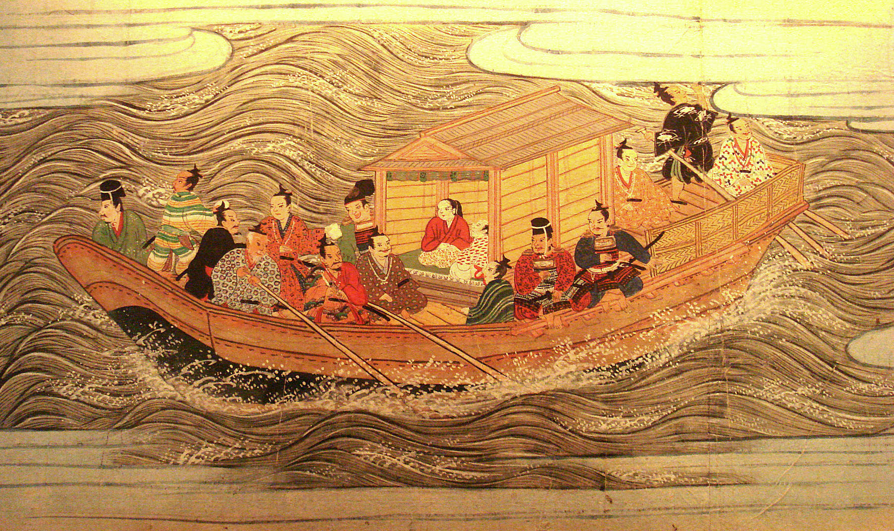 A Muromichi ship